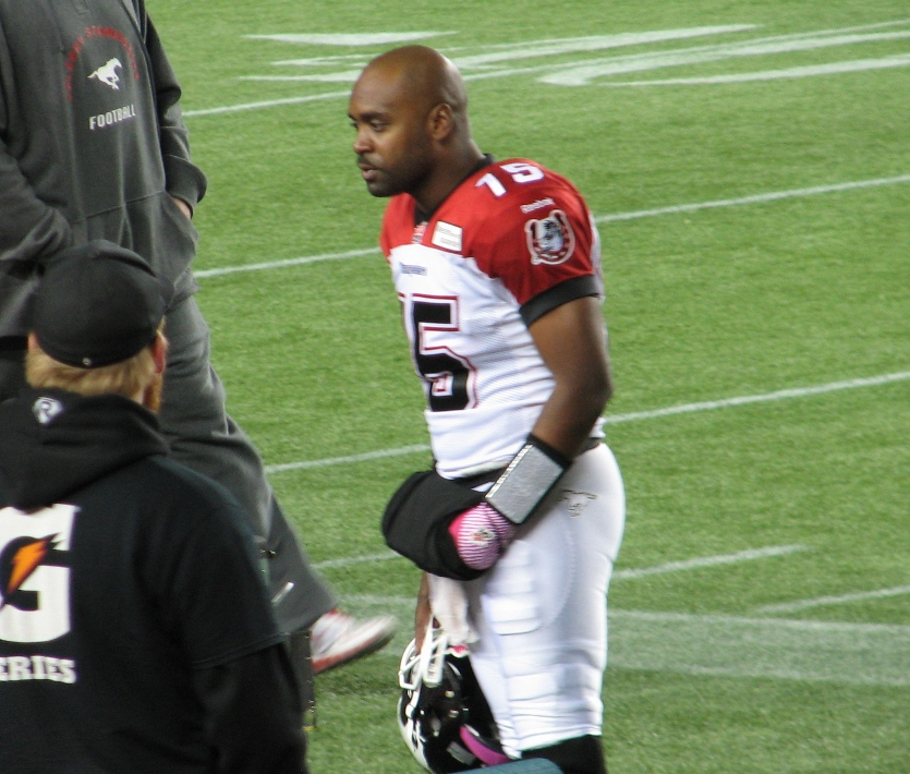 Kevin Glenn, photographed at Commonwealth Stadium on 18 October 2013. This was the last home game for the Edmonton Eskimos for the 2013 CFL season. Glenn was the starting quarterback for the Calgary Stampeders for the evening's contest.